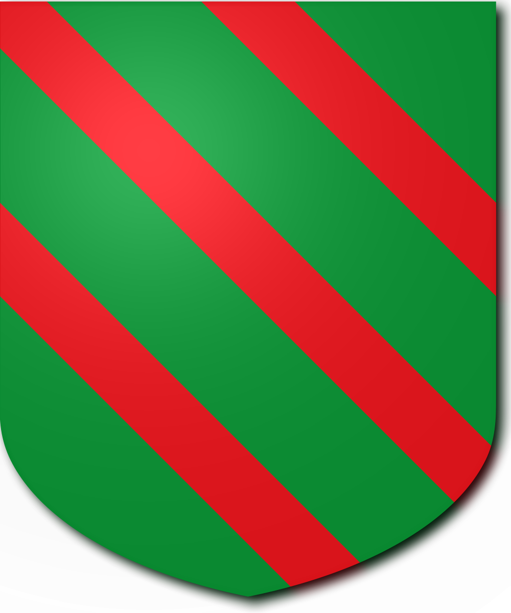 Albore coat arms